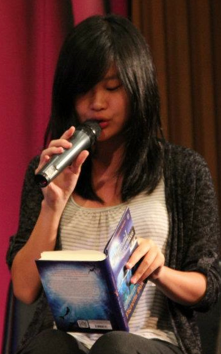 pieretta dawn at asia books event.png